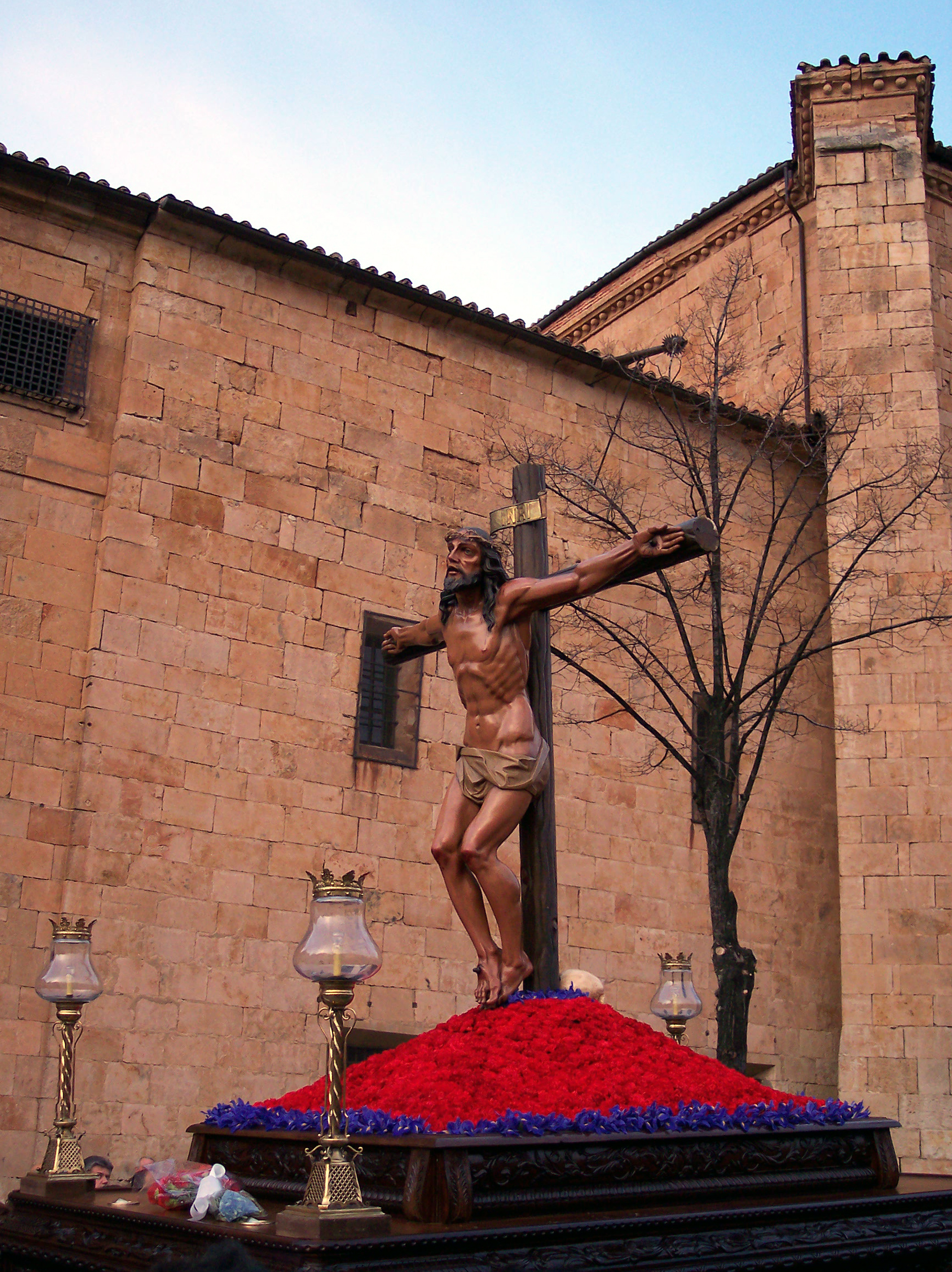 Christ of the Agony in Salamanca, Spain